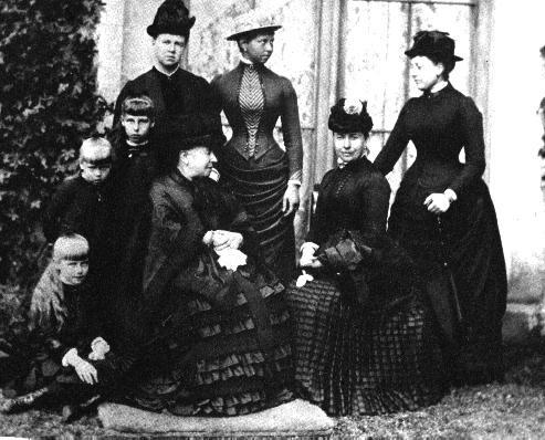 This photo of Queen Victoria of Great Britain, two of her daughters, a daughter in law and four of her grandchildren, was taken at Balmoral in 1884